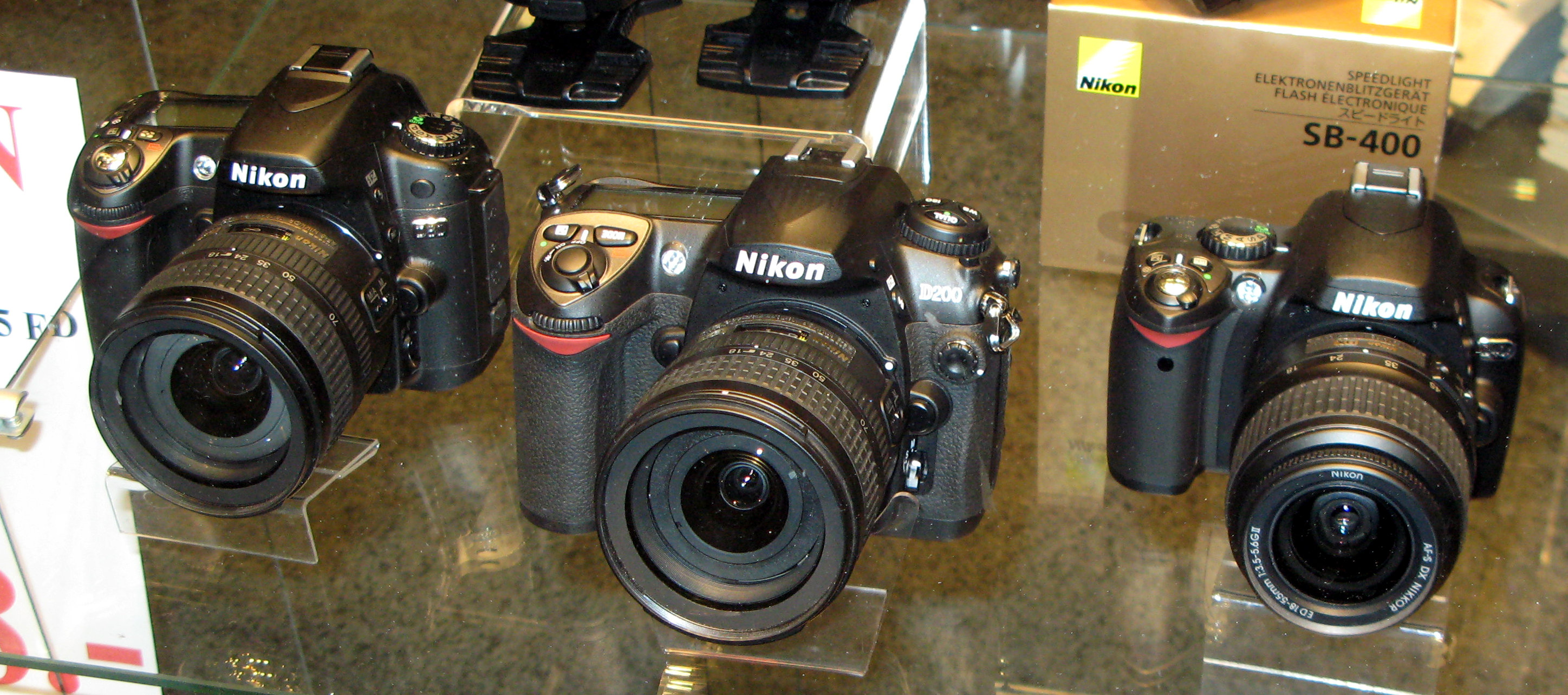 Digital reflex by Nikon in 2007 : the D200, D80 and D40